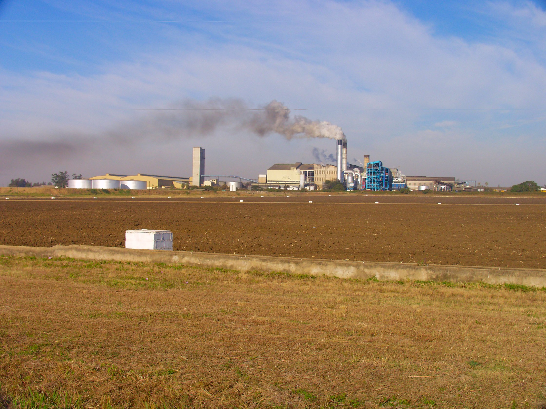 Mhlume Sugar Mill